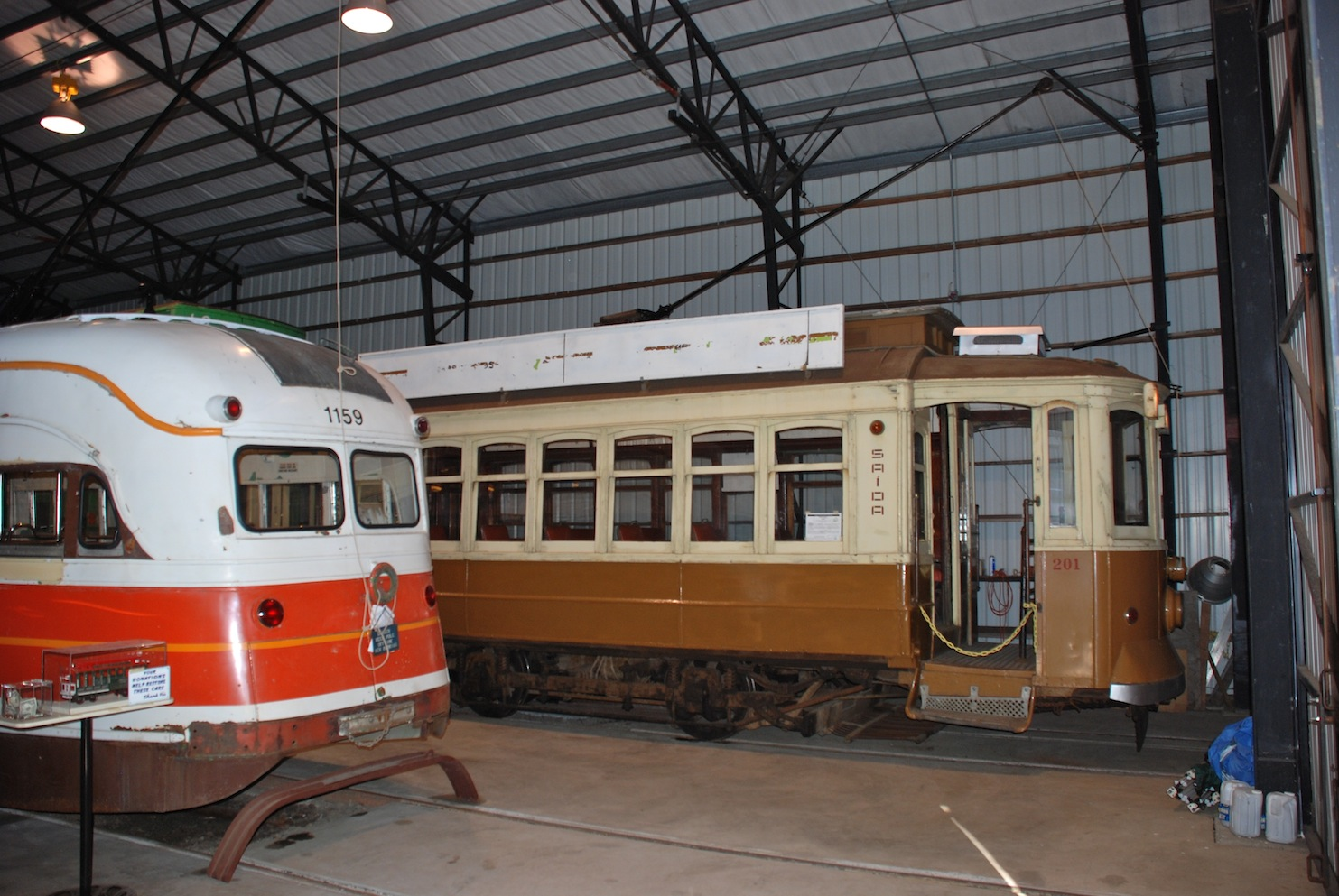 Streetcars inside the carbarn at the Oregon Electric Railway Museum, at Antique Powerland, in Brooks, Oregon. Car 210 (currently showing the wrong number, "201") is from Porto, Portugal, where it was built in 1940, based generally on American (J.G. Brill) designs of the 1910s. “Saída”, marked by the car's door, is Portuguese for "Exit". Car 1159 is a 1946-built PCC streetcar from San Francisco (and originally from St. Louis).